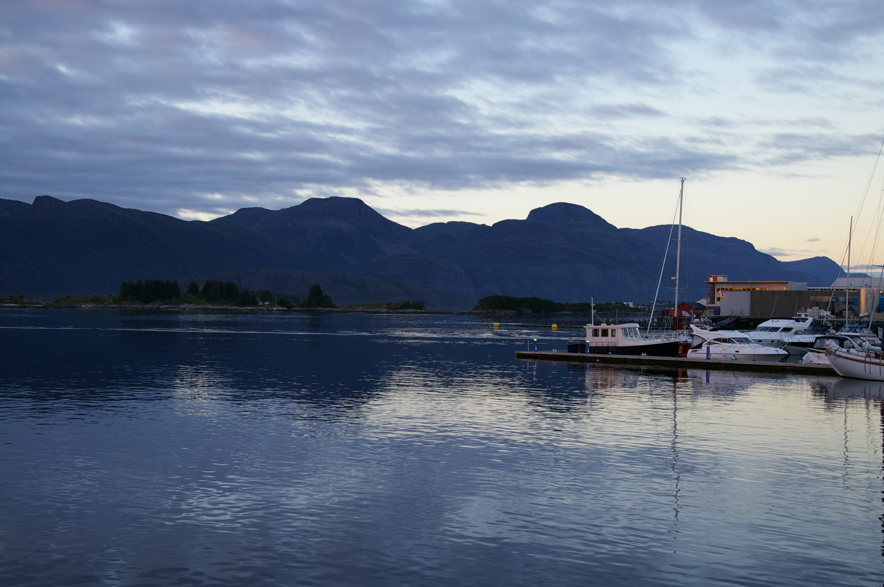 Botnafjorden in Florø, Sogn og Fjordane, Norway